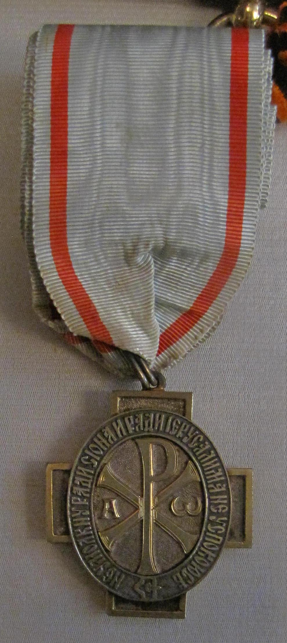 Знак Императорского Православного Палестинского Общества ; Badge of the Russian Imperial Orthodox Palestinian Society; the inscription reads „Не умолкну ради Сіона, и ради Иерусалима не успокоюсь“. a quotation from the book of Isaiah 62:1 For Zion's sake will I not hold my peace, and for Jerusalem's sake I will not rest (thanks to user:Paramecium for the identification!)